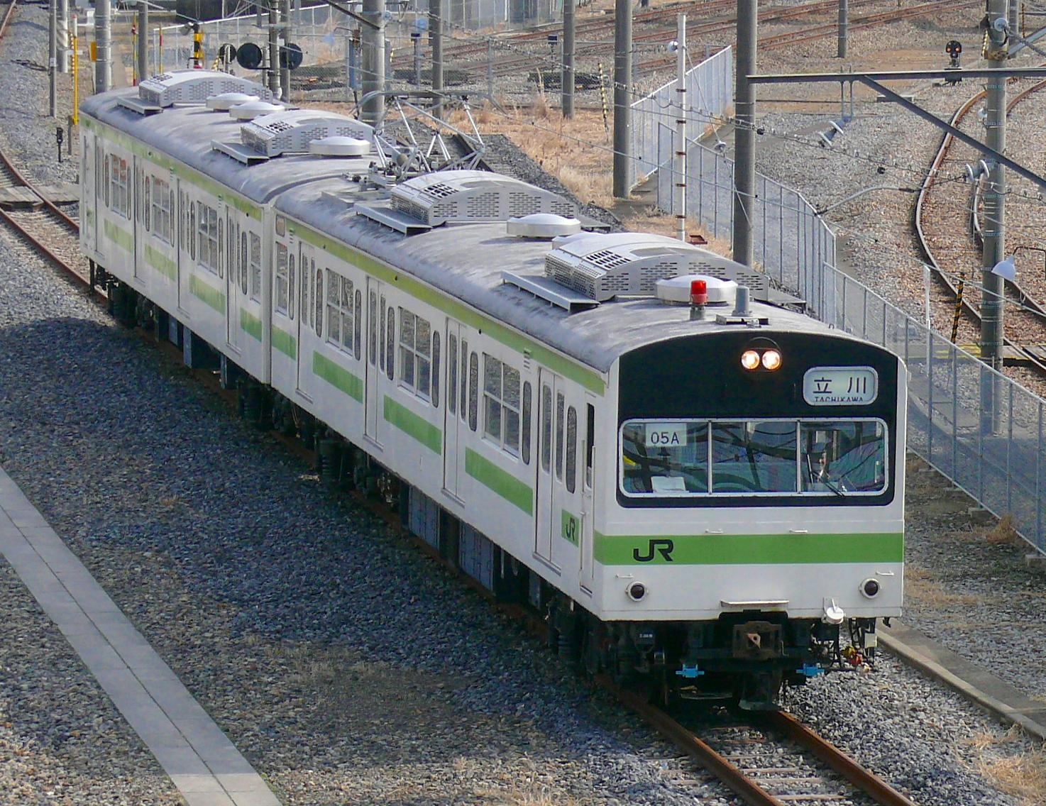 JR East 103 series two-car EMU training set at Higashi-Omiya Training Center in Saitama Prefecture, Japan